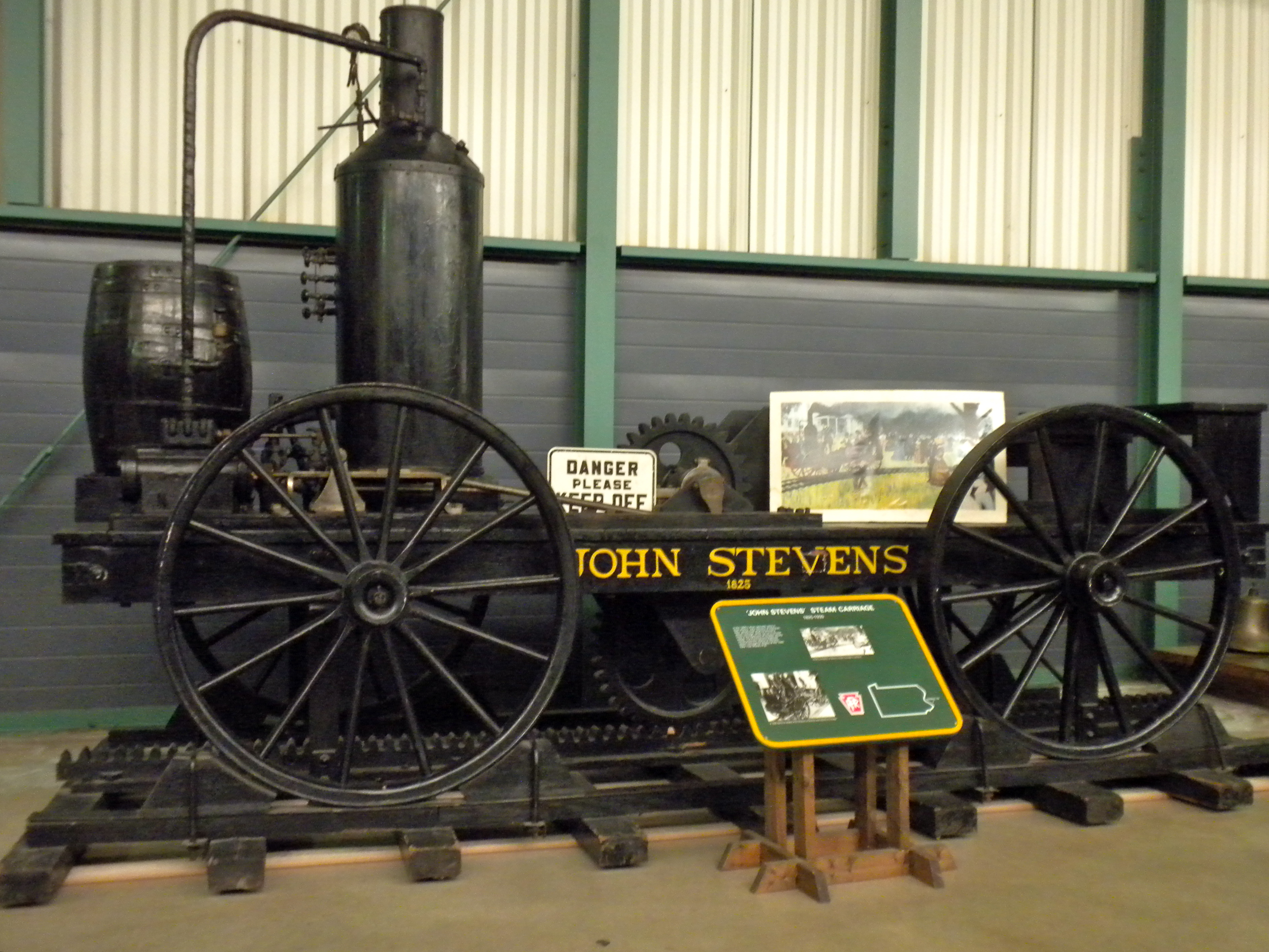 REPLICA of John Steven's steam carriage, which ran in 1825 in Hoboken, New Jersey. The replica was built by the Pennsylvania Railroad in 1940 and was displayed at the NY World's Fair. It is now in the Railroad Museum of Pennsylvania, east of Strasburg, PA